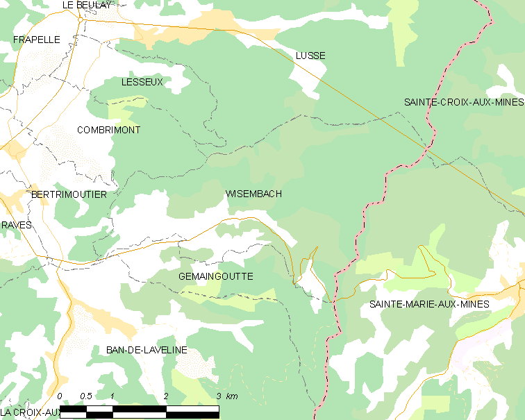 Map of French municipality Wisembach